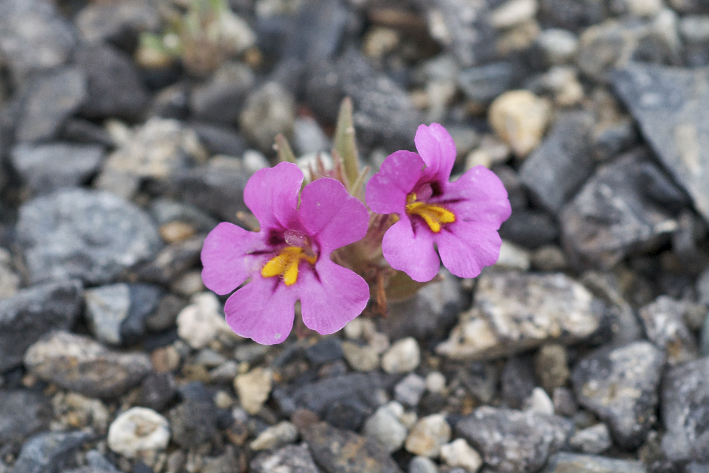 Mimulus nanus — Dwarf purple monkeyflower. Photographed along the road to the South Tufa area of Mono Lake, in Mono County, California. Species native to California and northwestern North America.